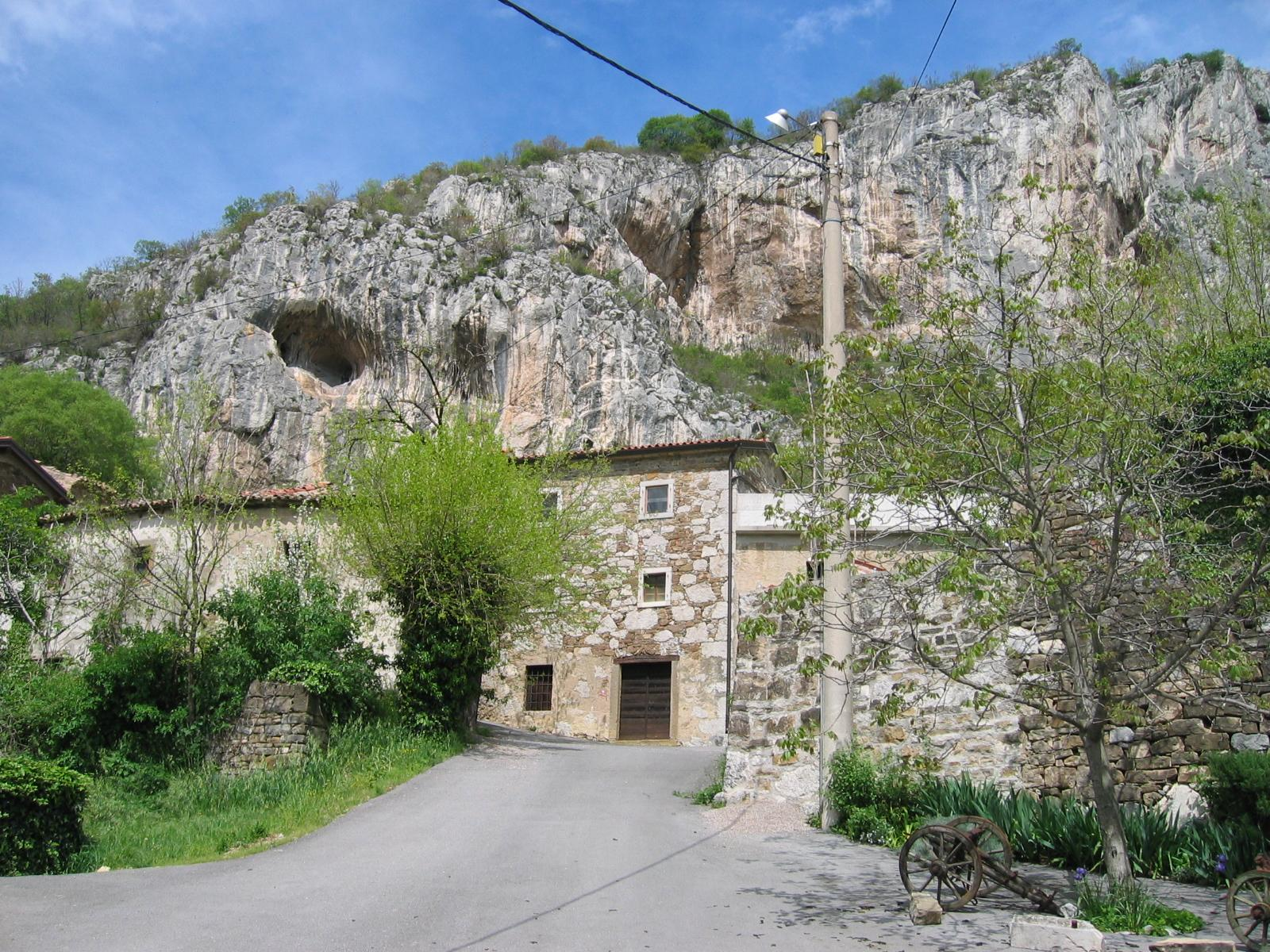 Osp, village in south-western Slovenia, near near Koper and Trieste; known for sport-climbing cliffs. photo:Ziga 19:04, 19 August 2006 (UTC)